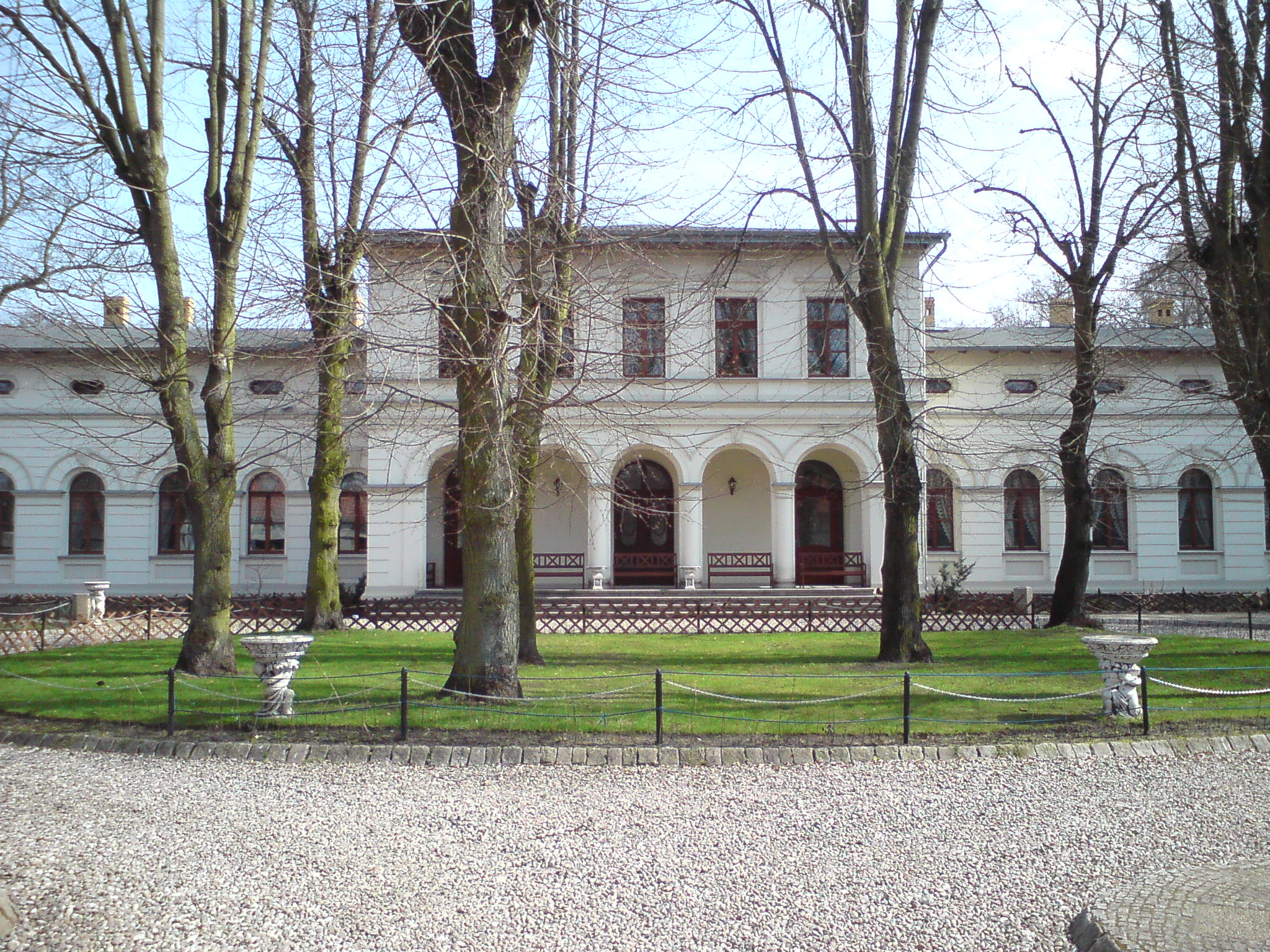 Pałac Panorama w Stargardzie (zabytek nr rejestr. 1160)